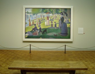 A Sunday Afternoon on the Island of La Grande Jatte in the Art Institute of Chicago, photo taken by Tom S.A Sunday Afternoon on the Island of La Grande Jatte in the Art Institute of Chicago, photo taken by Tom S.